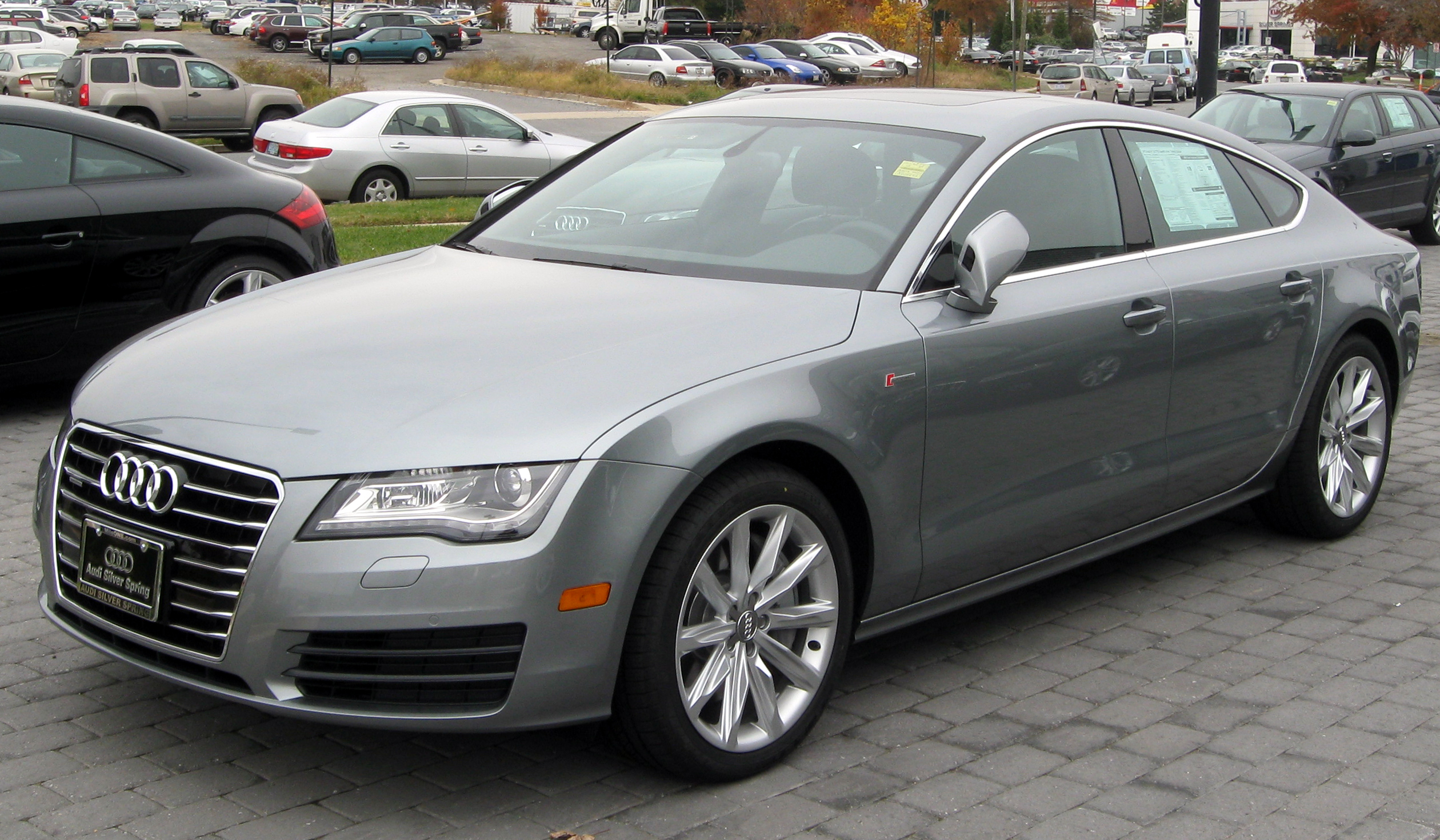 2012 Audi A7 photographed in Silver Spring, Maryland, USA.